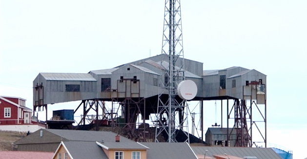 Cableway terminal in Longyearbyen, Svalbard. Used for coal transportation from several mines to the harbor in 1957-1987. License on Flickr (2011-01-07): CC-BY-SA-2.0 Flickr tags: spitzbergen, svalbard, longyearbyen, delphin-voyager, delphin, voyager, pentax, k10d